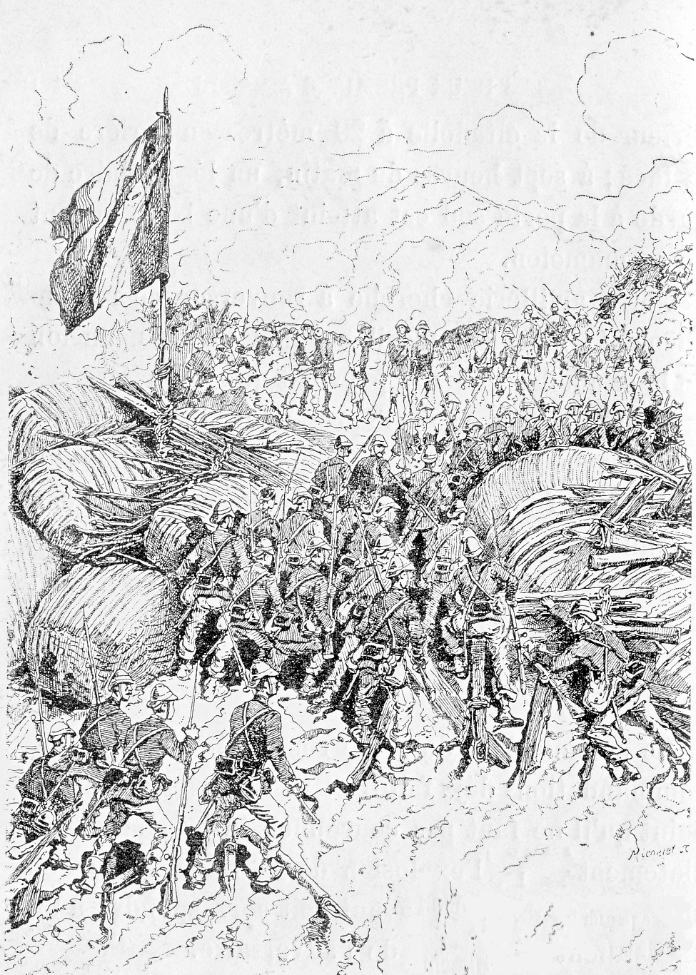 Legionnaires of the Tuyen Quang garrison defend a breach in the perimeter wall, 22 February 1885